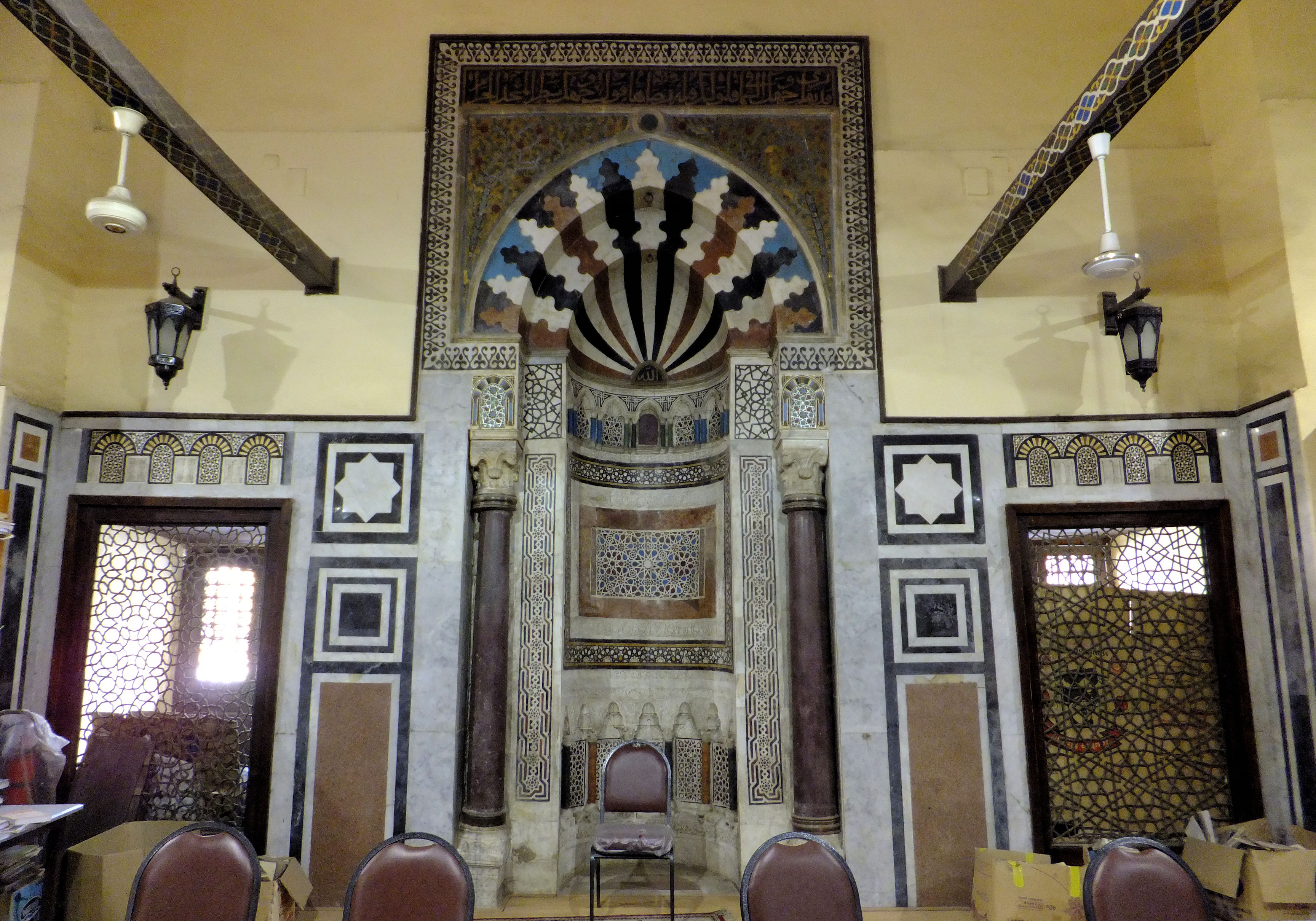 Mihrab of the Taybarsiyya Madrasa at al-Azhar (section located on the right side of the Gate of the Barbers and the Gate of Qaytbay). The madrasa was built in 1309-10 by a Mamluk emir, originally a complimentary mosque located outside al-Azhar Mosque but adjacent to it.